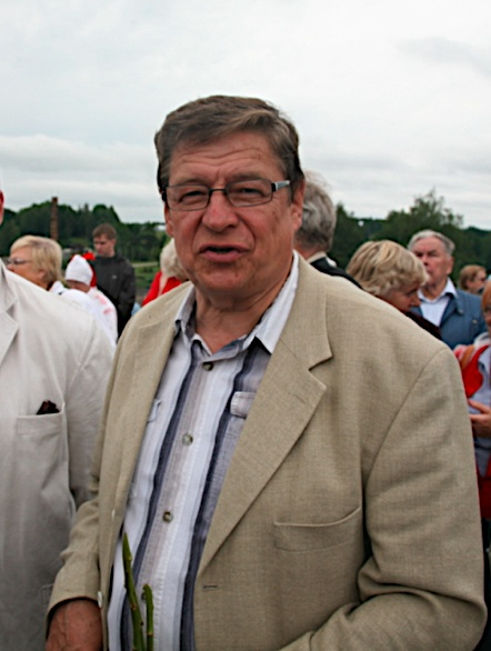 Mait Klaassen